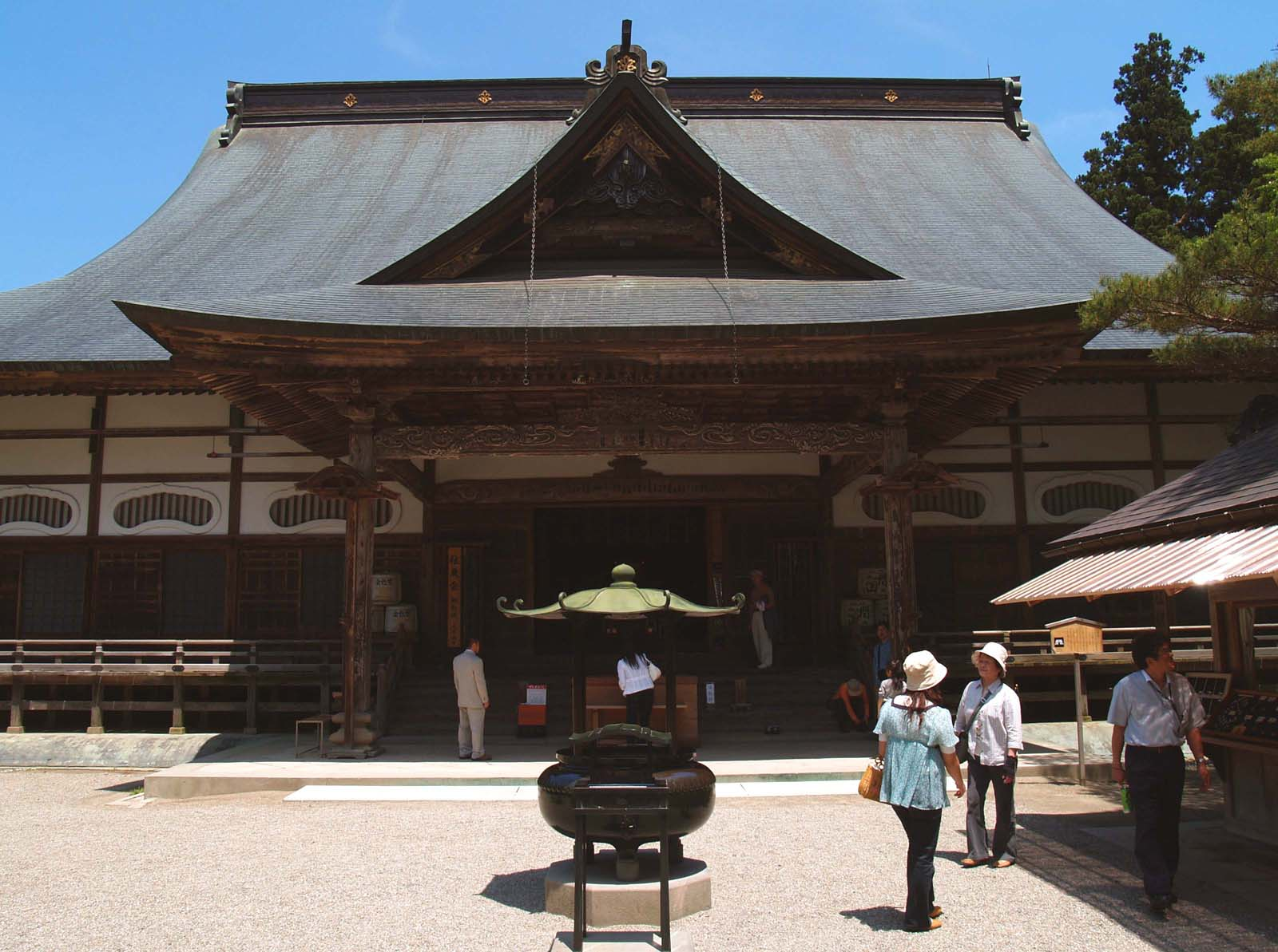 The Main hall of Chūson-ji Temple in Hiraizumi, Iwate.